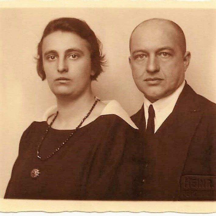 Karl Julius Heinrich Revy and wife